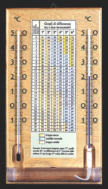 Psychrometer. My own work.